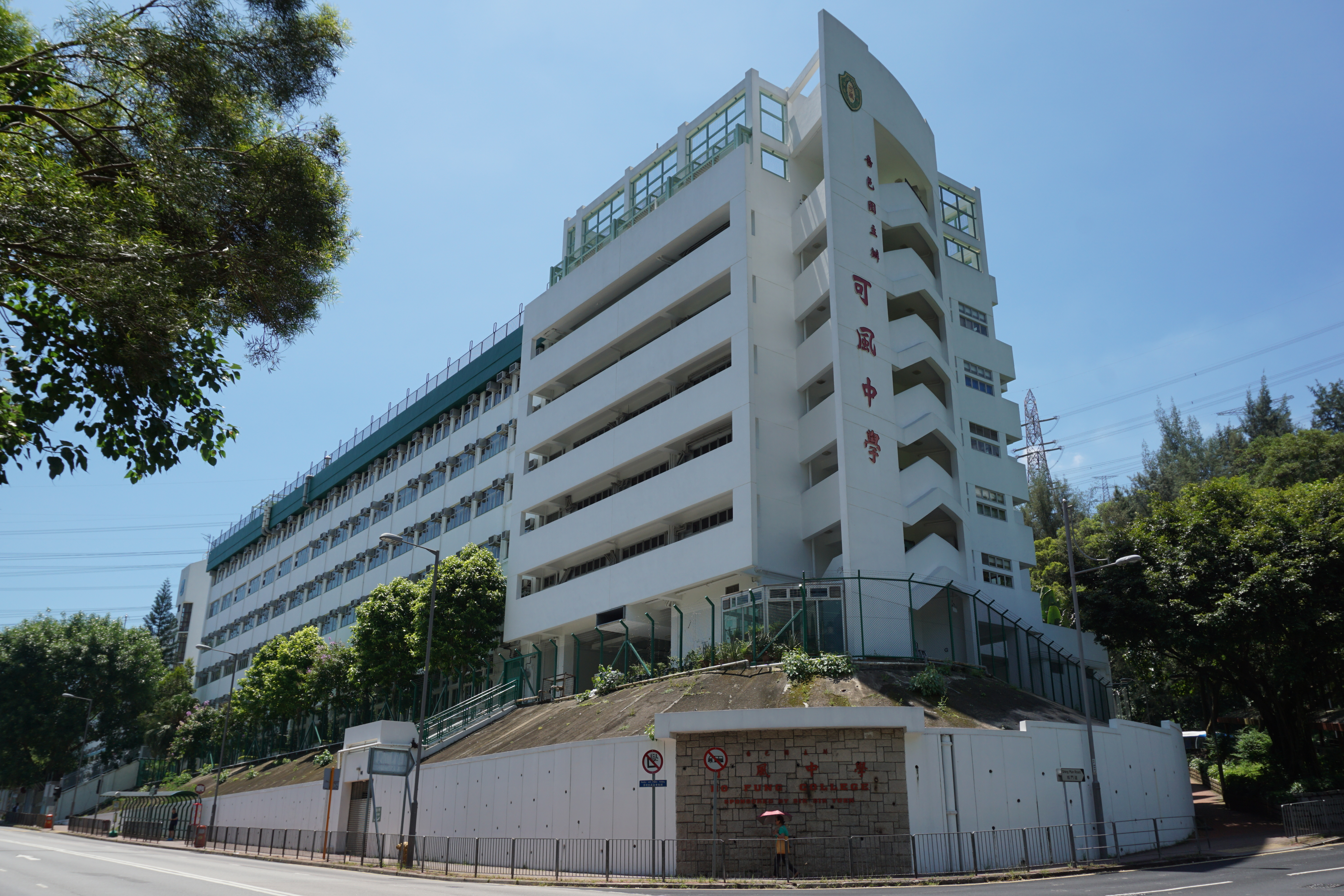 Ho Fung College in Lei Muk Shue, Hong Kong.